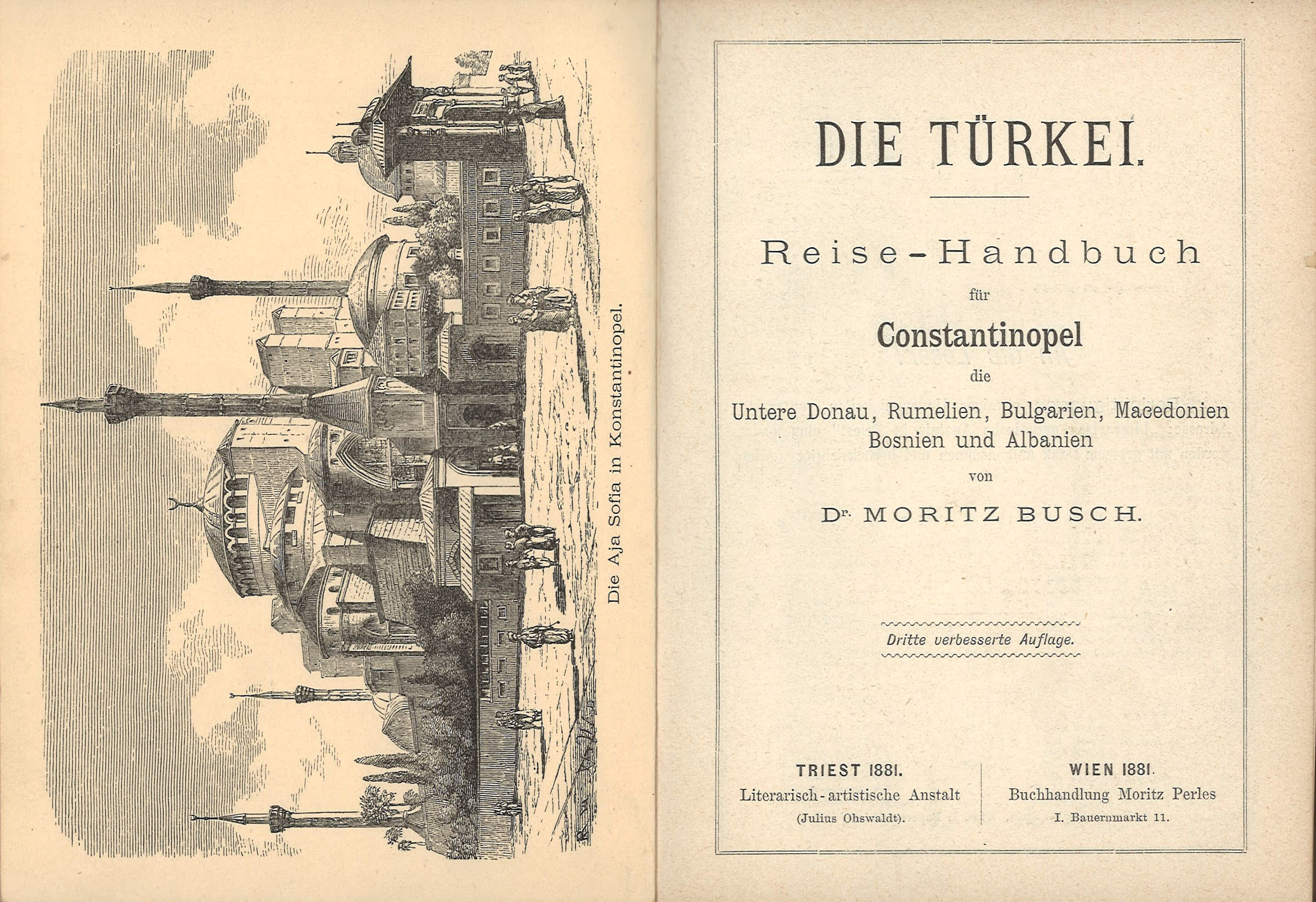 title page and frontispiz of Lloyd's Reisehandbuch: Die Türkei, Triest 1881